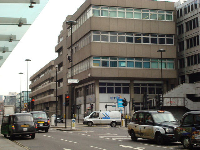 Baynard House, Queen Victoria Street, London EC4